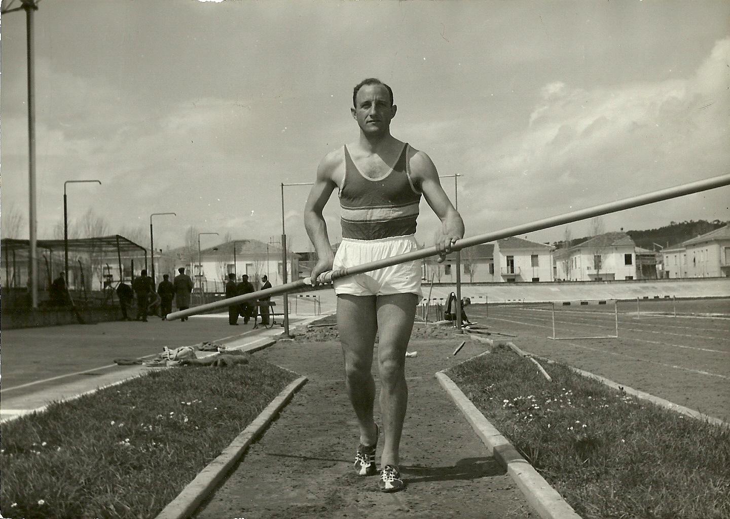 Giulio Chiesa in a shot in Italy in 1950s